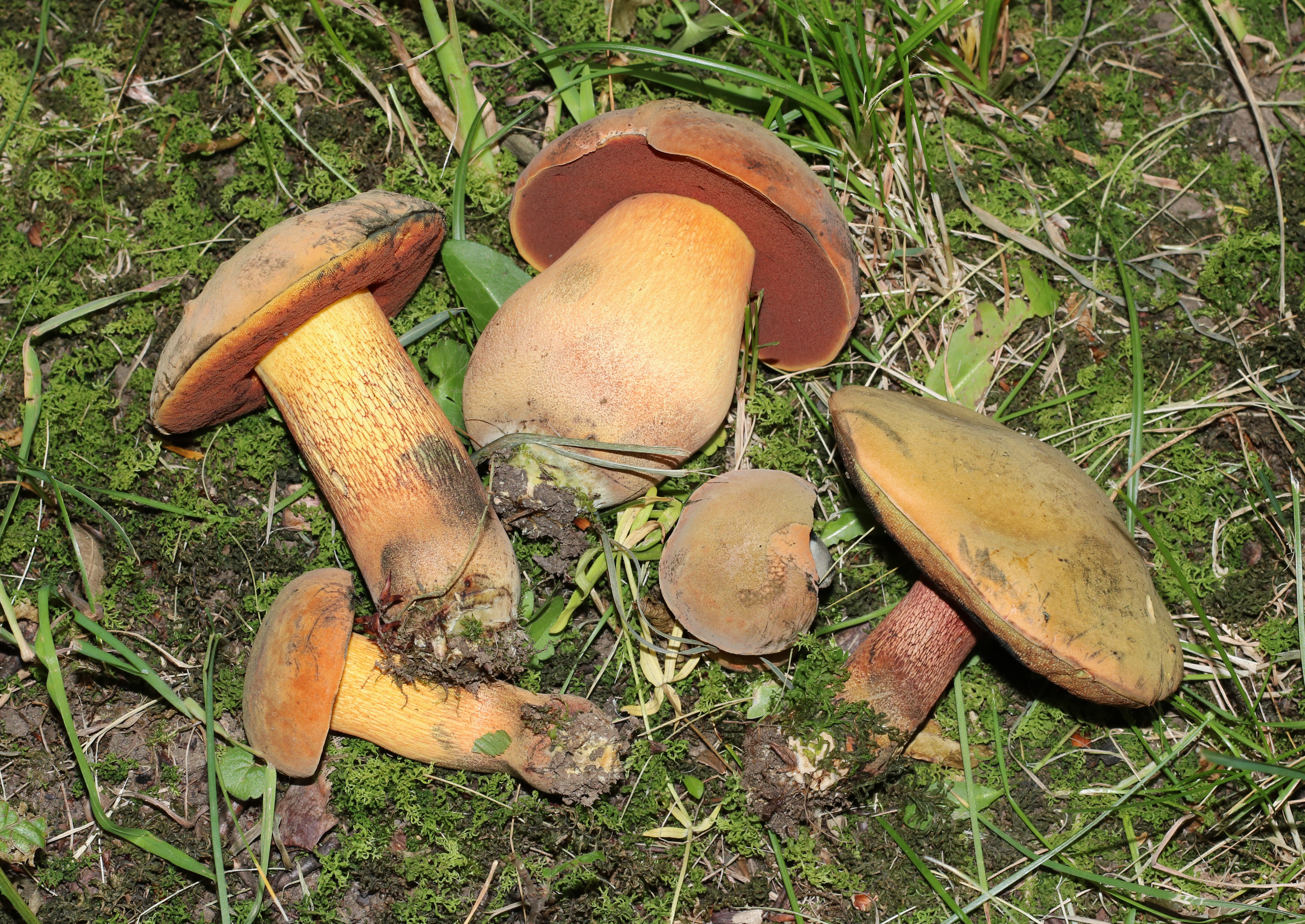 Picked Lurid boletes Suillellus luridus (also Boletus luridus). Ukraine, Ivano-Frankivsk oblast, Yaremche.